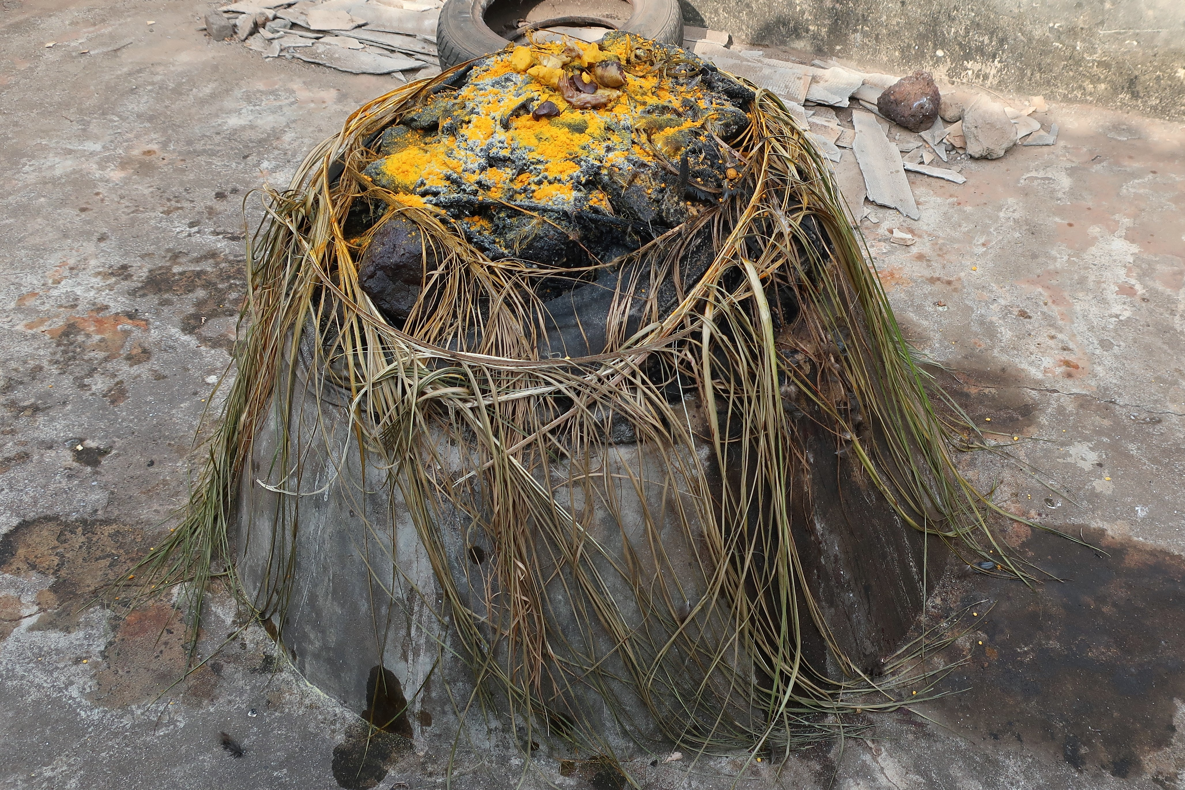 various materials, corn flours and natural materials